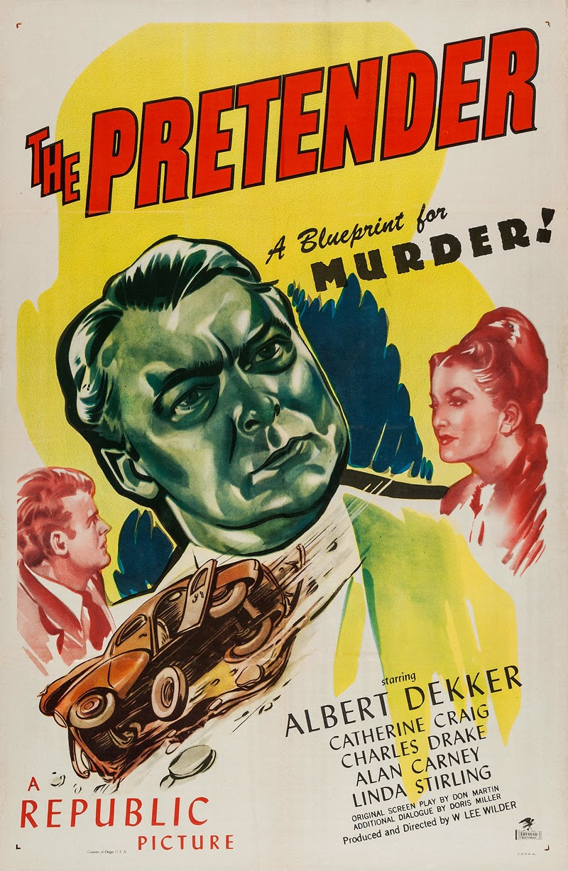 Poster for the 1947 film The Pretender. The item has no copyright markings on it as can be seen in the links above. At bottom is Country of origin USA and 33402. These look to be associated with the printing of the poster.